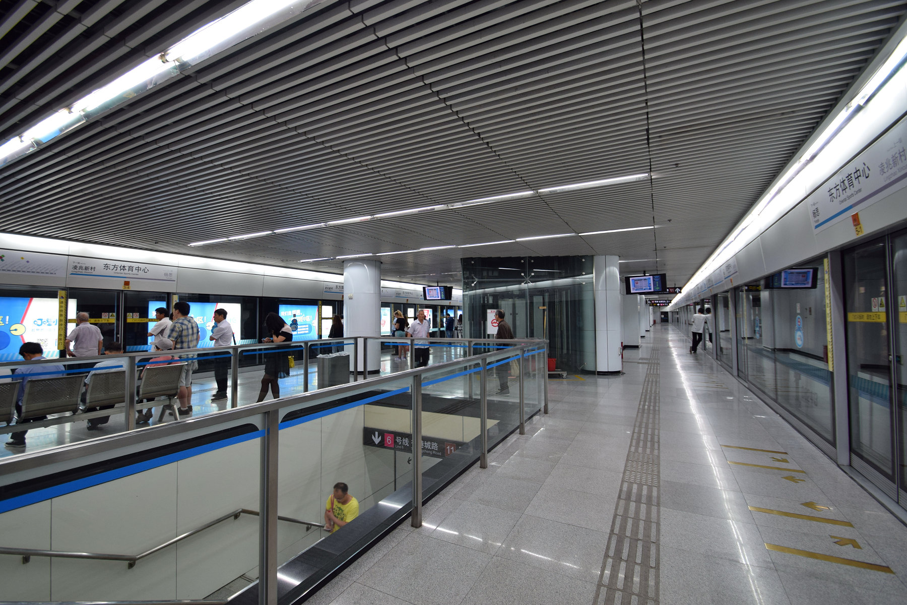 Line 8 Platform of Oriental Sports Center Station, Shanghai Metro